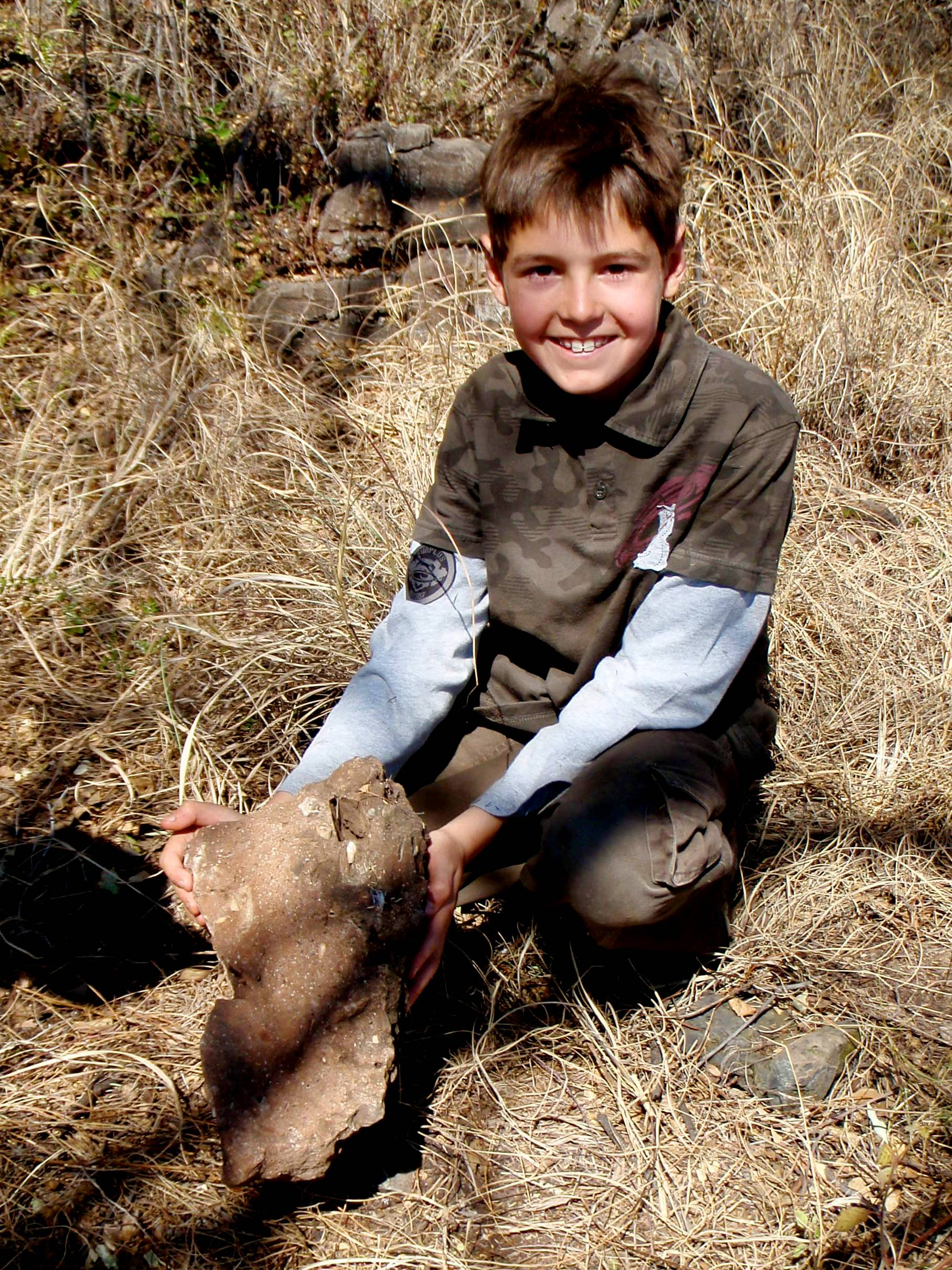 Matthew Berger moments after the discovery of the clavicle of Australopithecus sediba at the Malapa site, Cradle of Humankind, South Africa. Photo by Lee R. Berger